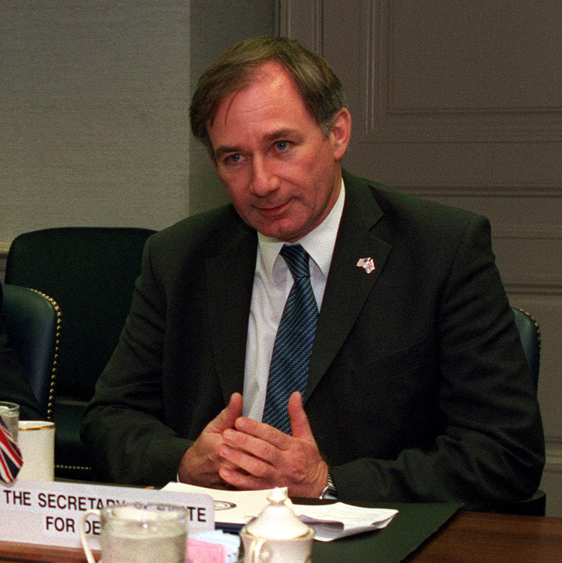 Secretary of State for Defence Geoffrey Hoon (right), of the United Kingdom, meets with Secretary of Defence Donald H. Rumsfeld (left), of the United States of America, in the Pentagon on 30th of October 2001.